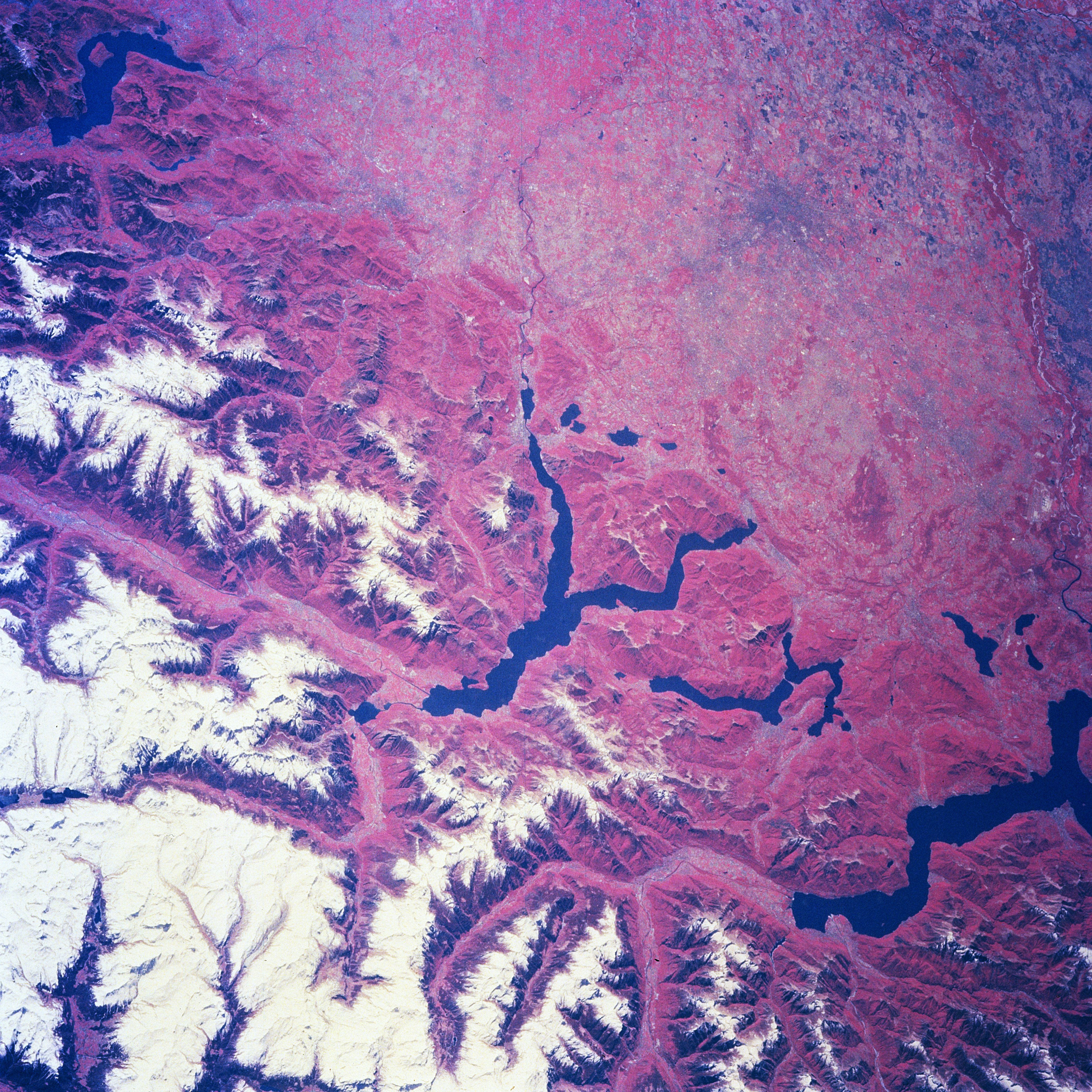 Several elongated lakes (dark features) are identifiable in this southerly view of the Italian-Swiss border. The elongated lakes are the creation of alpine (or valley) glaciers that moved generally southward through this section of the Italian Alps over 12000 years ago. From west to east the four larger lakes are Maggiore (lower right corner), Lugana, Como, and d'Iseo (upper left corner). Smaller lakes (also dark features) are visible at the southern end of Lake Como (center of image) and Lake Maggiore. Subtle faults that are perpendicular to the southern end of the lakes can be traced east to west across the landscape at the base of the Italian Alps. Glaciated, U-shaped valleys are discernible north and northeast of the lakes. The color infrared helps to identify the densely vegetated mountain slopes where the forested land (green vegetation) is shown as concentrations of reddish patterns. The relatively flat plains of the highly industrialized and agriculturally productive Po River Valley (upper third of image) presents a dramatically different looking terrain than the snow covered mountainous region of northern Italy.